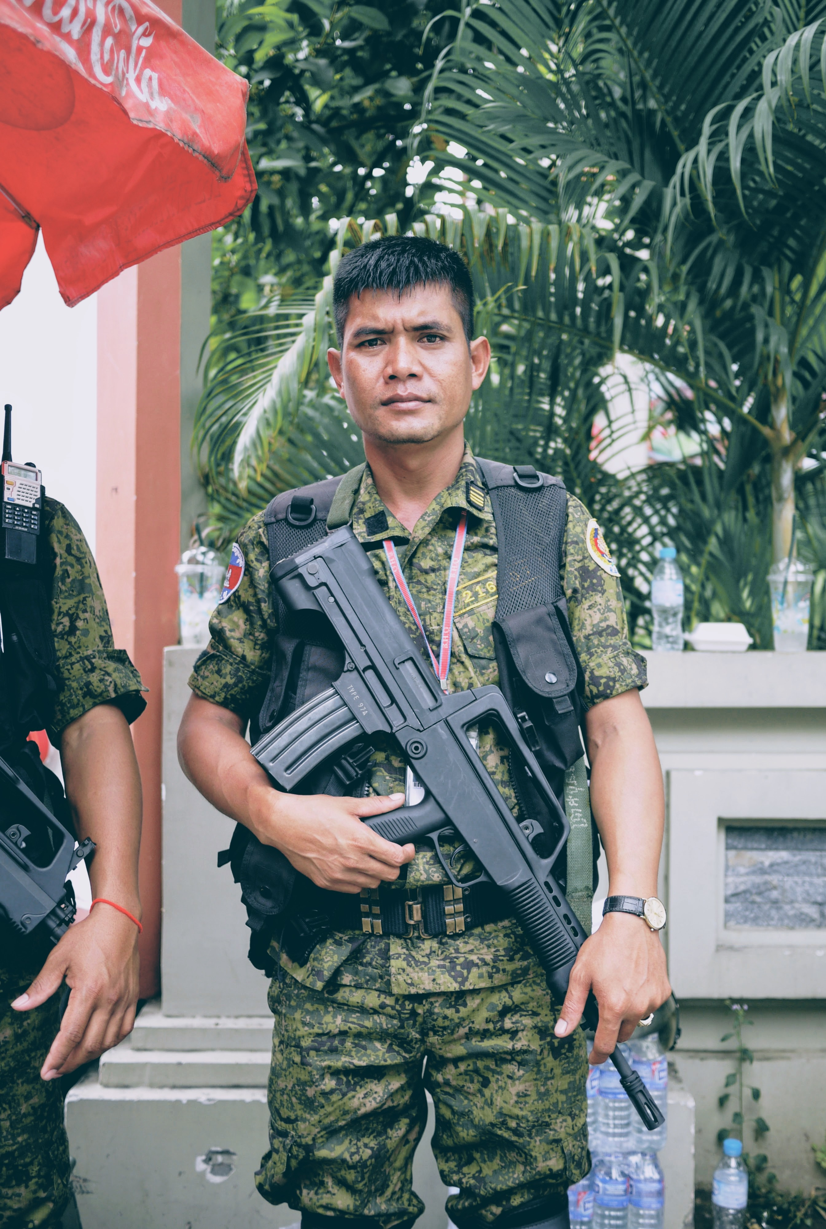 A soldier from the Cambodian Prime Minister's Bodyguard Unit stationed in Boeung Keng Kang 1 area during Water Festival, November 2017.